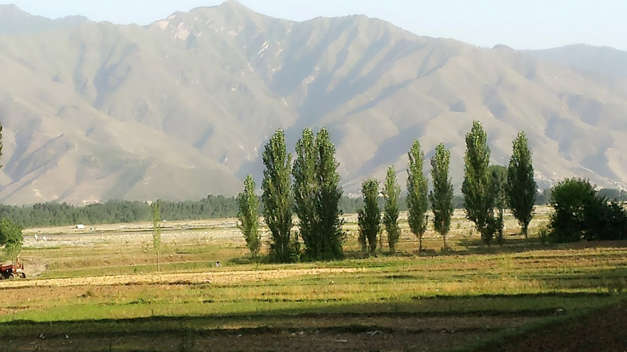 This picture was taken in 2015. Picture shows the Lower meadow (Kuza bandai) Fields.